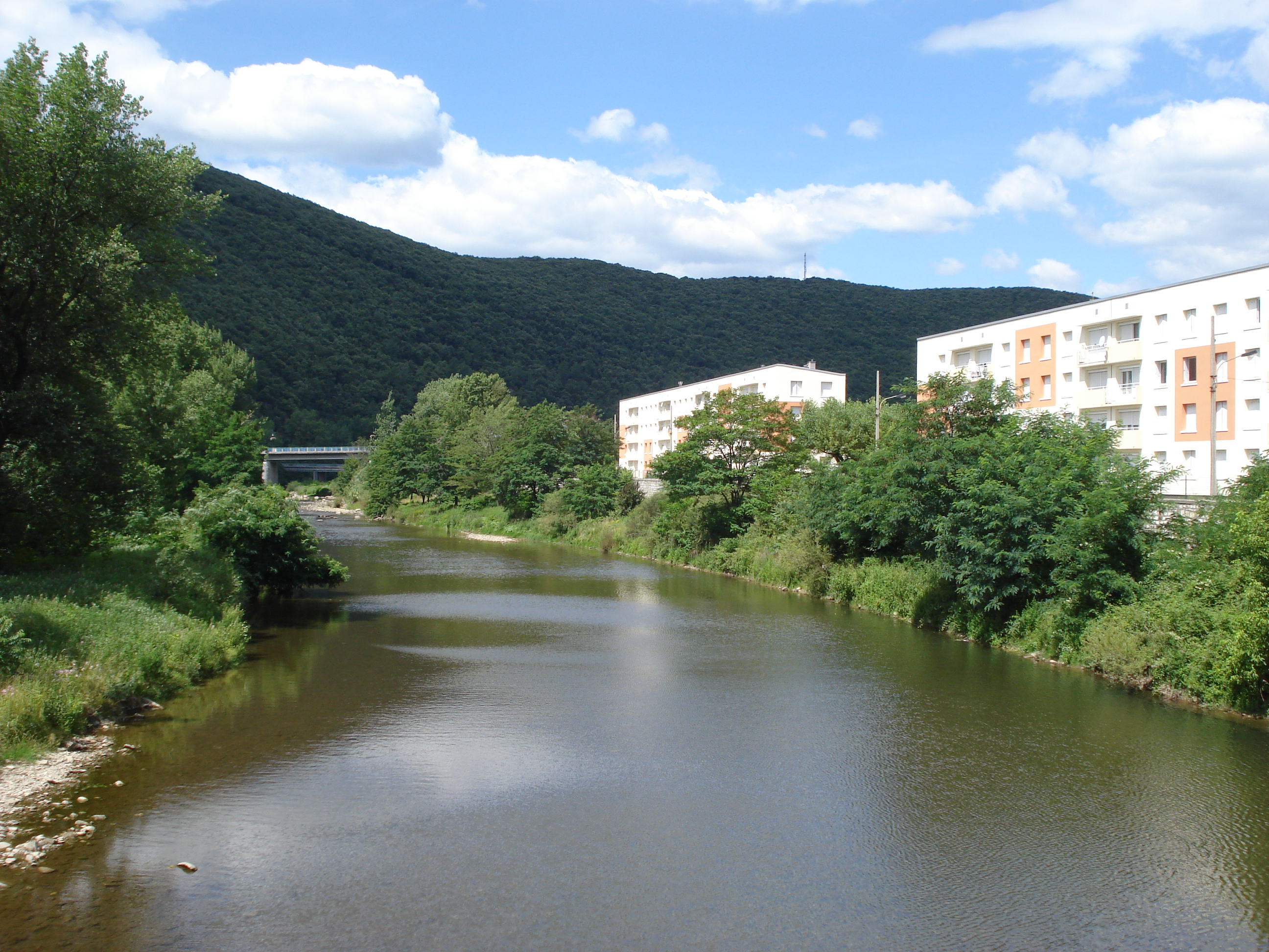 Gardon d'Alès at La Grand-Combe